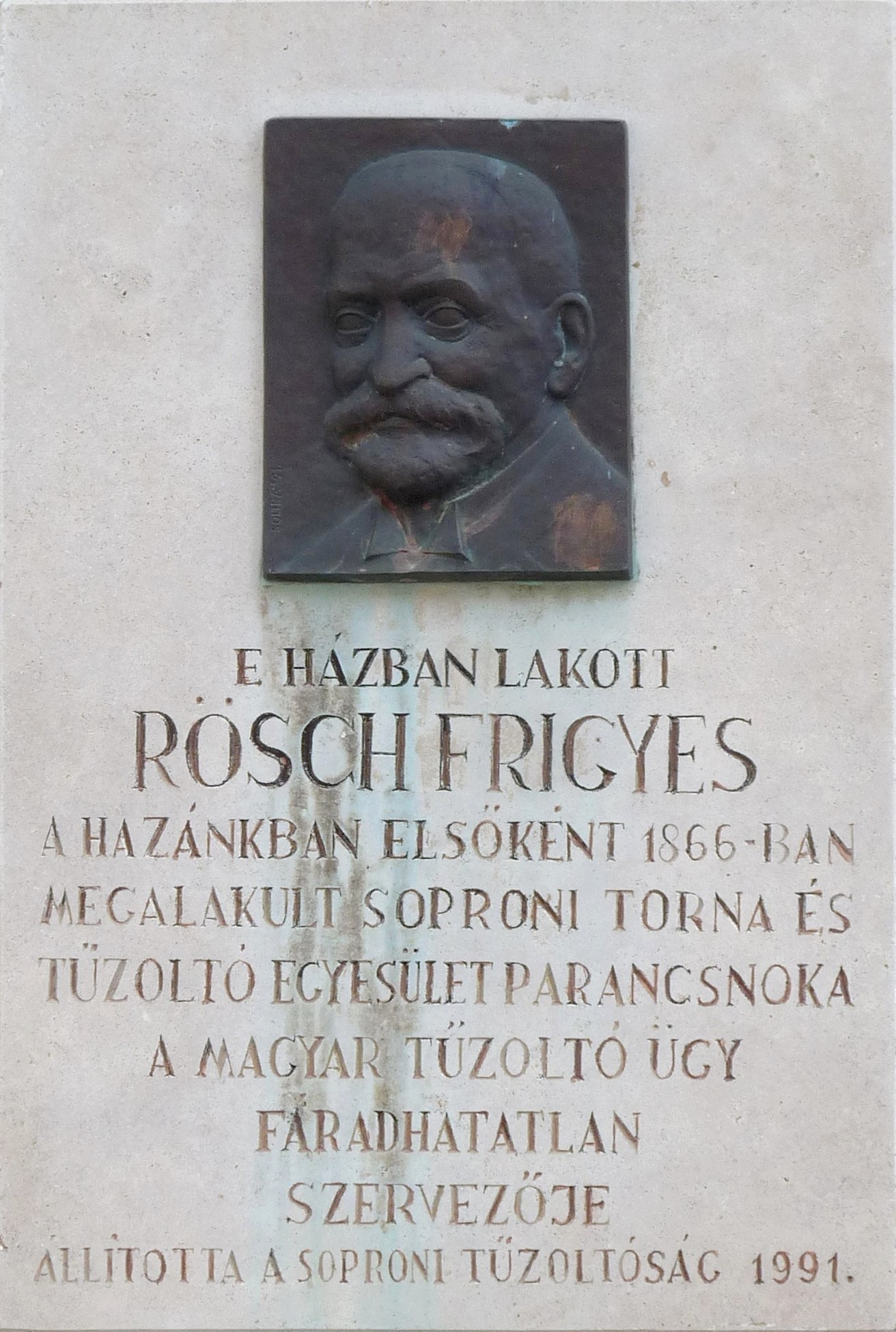 Commemorative plaque to Mr. Frigyes Rösch (1832-1923) commander of the firefighters of the city of Sopron and professor of secondary school for sciences and modern languages. It was affixed on the wall of his former home in 1991. Author of the bronz relief is Mr. Tamás Soltra E. (Sopron, Új Street Nr 13)